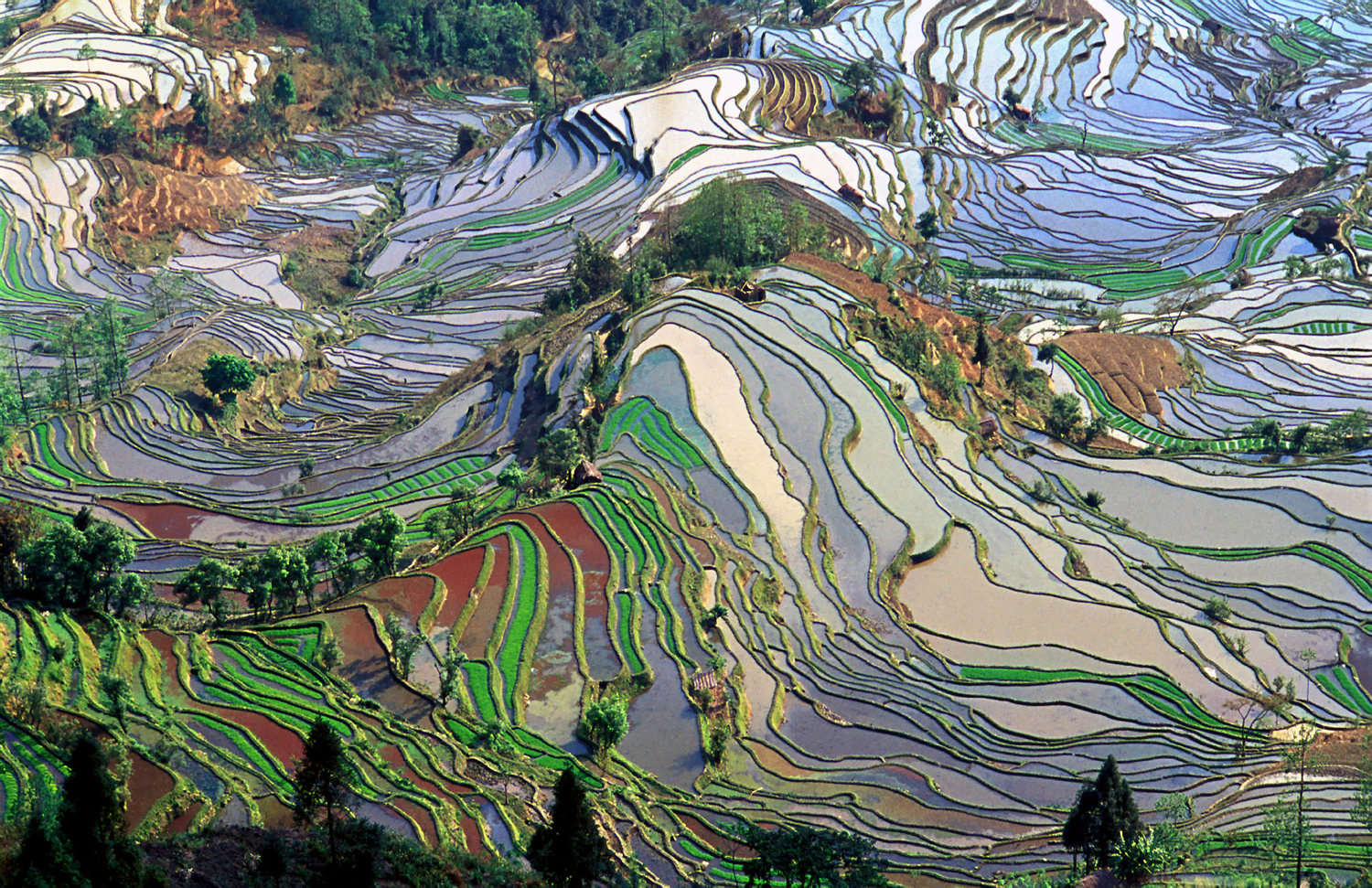 Edit for WP:FPC.